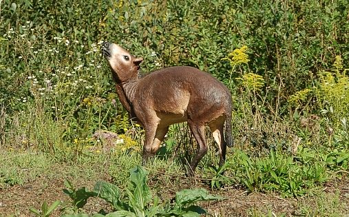 Reconstruction of Propalaeotherium, placed in the Grube Messel, near Darmstadt, Germany